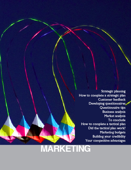 Cover for the Sustainable Business Booklet.